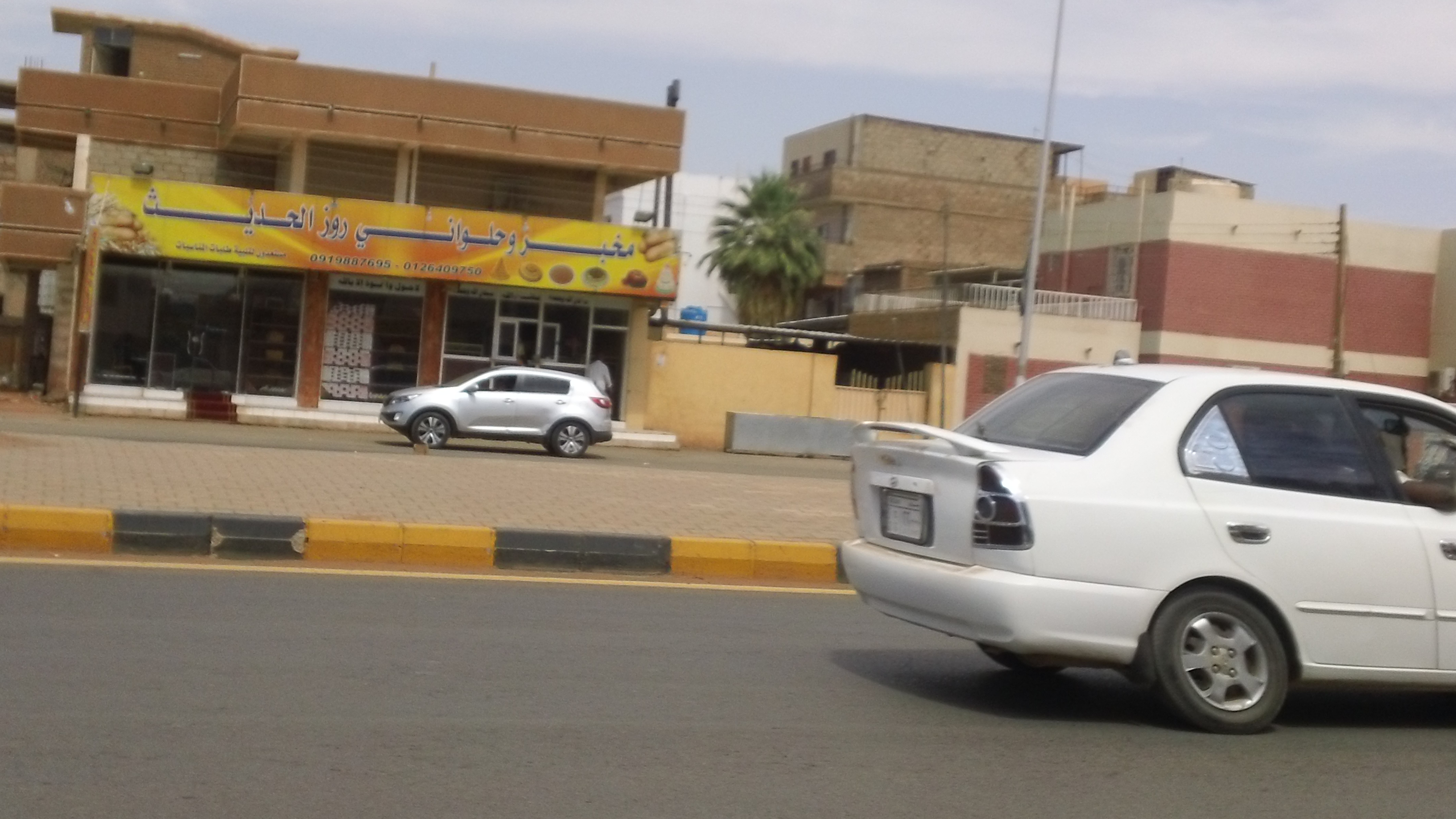 Alriad - 60th Road -Khartoum -Sudan